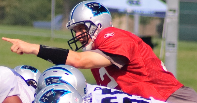 A morning at the Carolina Panther's Training Camp at Wofford College in Spartanburg, S.C. on 8/10/2009